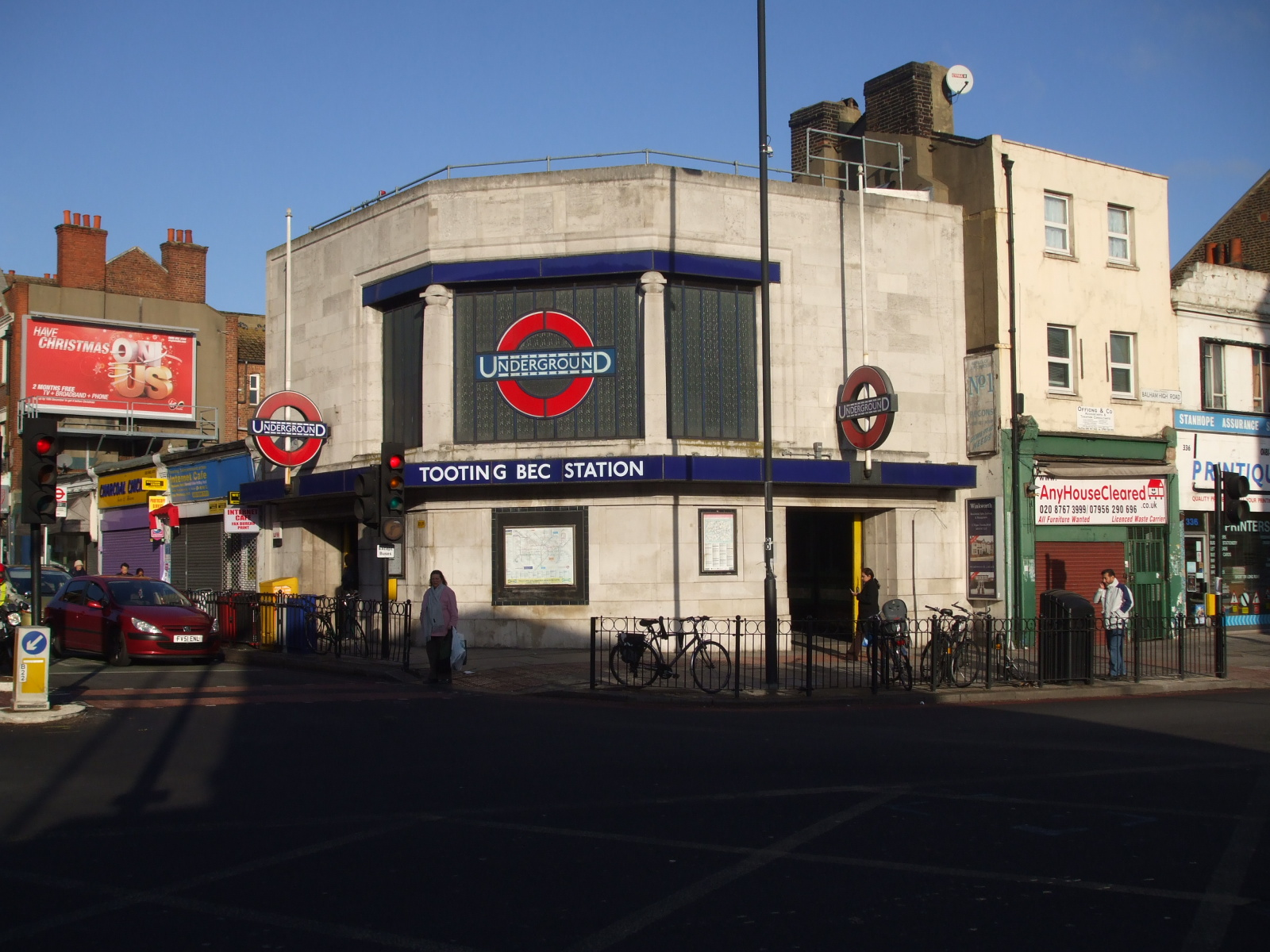 Tooting Bec tube station western entrance